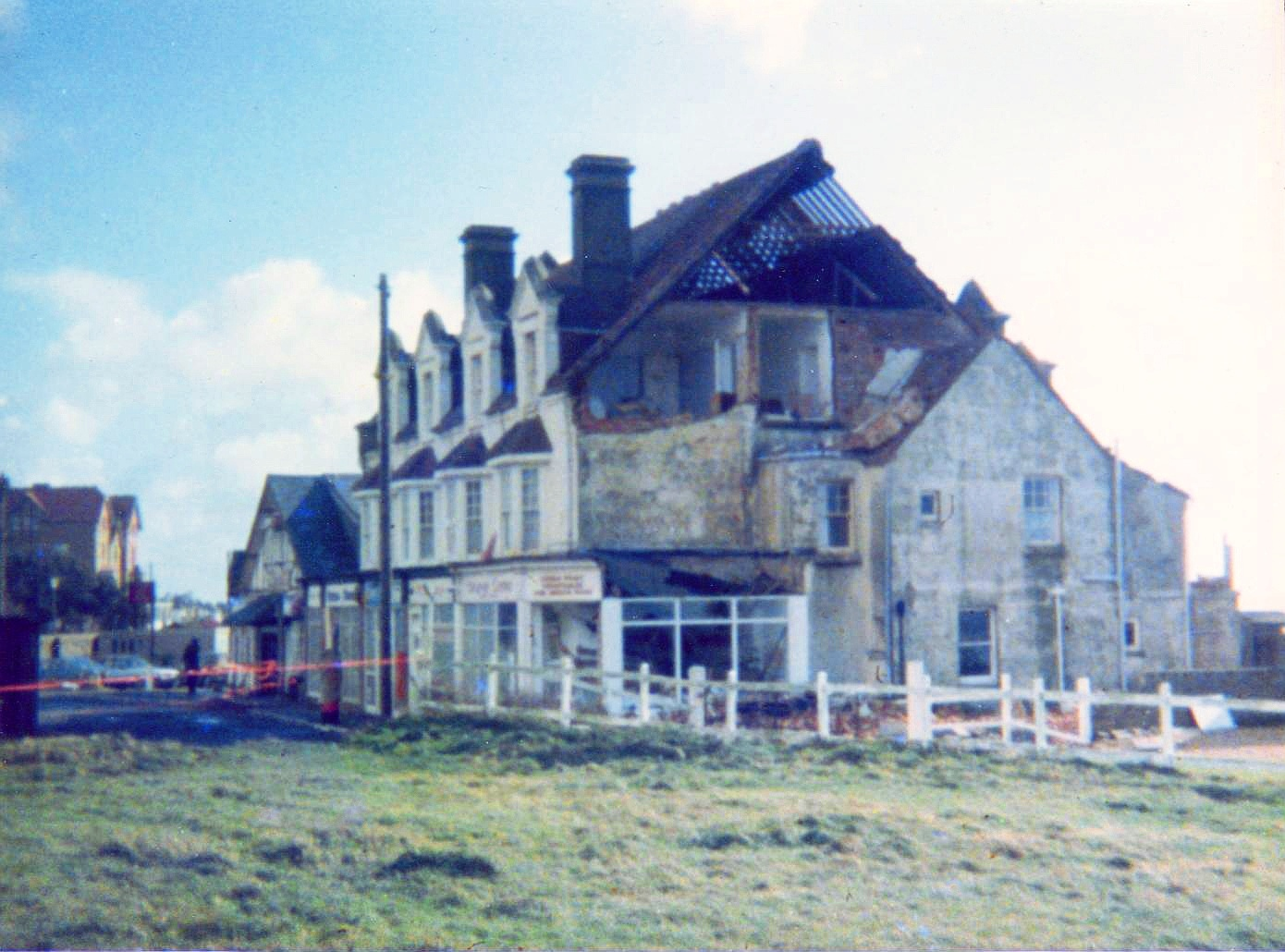 A storm-damaged building on the sea-front at Barton on Sea in Hampshire, England. The damage occurred on the night of 15/16 October 1987, during the Great Storm of 1987 when southern England was hit by a severe storm. The damage to this building was one of the more newsworthy acts of destruction that night. This picture was taken a few days later, probably Sunday 18 October. The picture was taken with a pocket camera on 110 cartridge film.